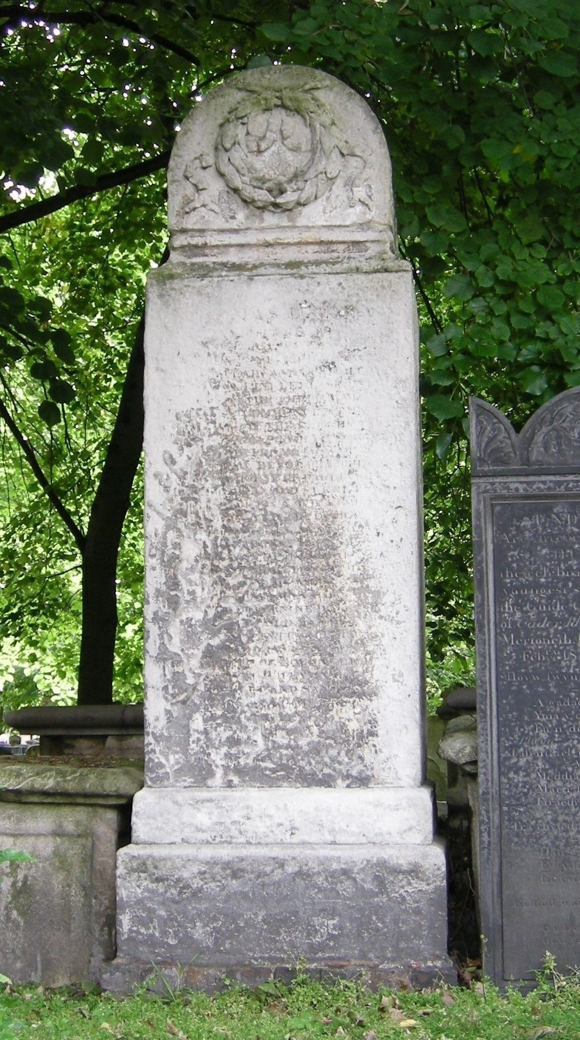 Tomb monument of Thomas Hardy (1752–1832), radical political reformer, designed by John Woody Papworth (1820–1870), in Bunhill Fields burial ground.